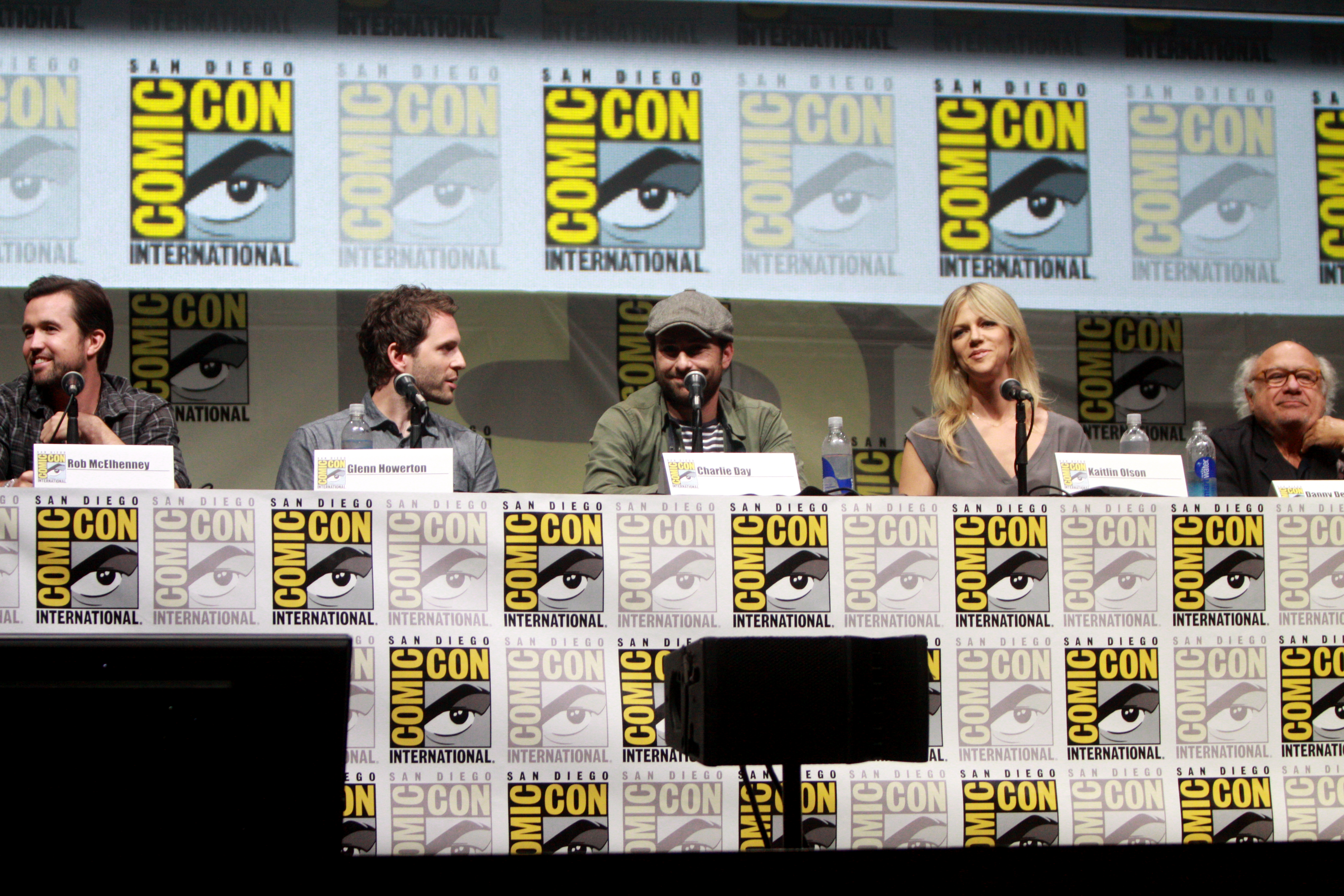 Glenn Howerton, Charlie Day, Kaitlin Olson and Danny DeVito speaking at the 2013 San Diego Comic Con International, for "It's Always Sunny in Philadelphia", at the San Diego Convention Center in San Diego, California.